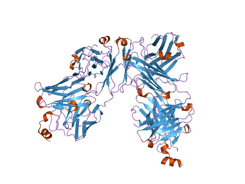 Cartoon representation of the molecular structure of protein registered with 2osl code.